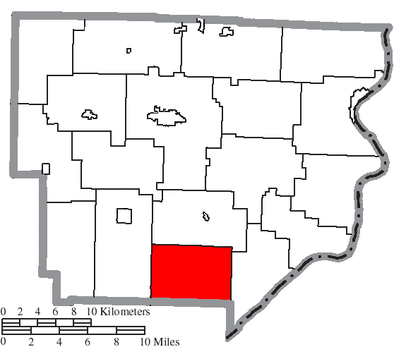 Map of the municipal and township boundaries of Monroe County, Ohio, United States, as of the 2000 census, with the location of Benton Township highlighted. Township borders are shown only in unincorporated areas in order to differentiate incorporated and unincorporated areas more clearly.